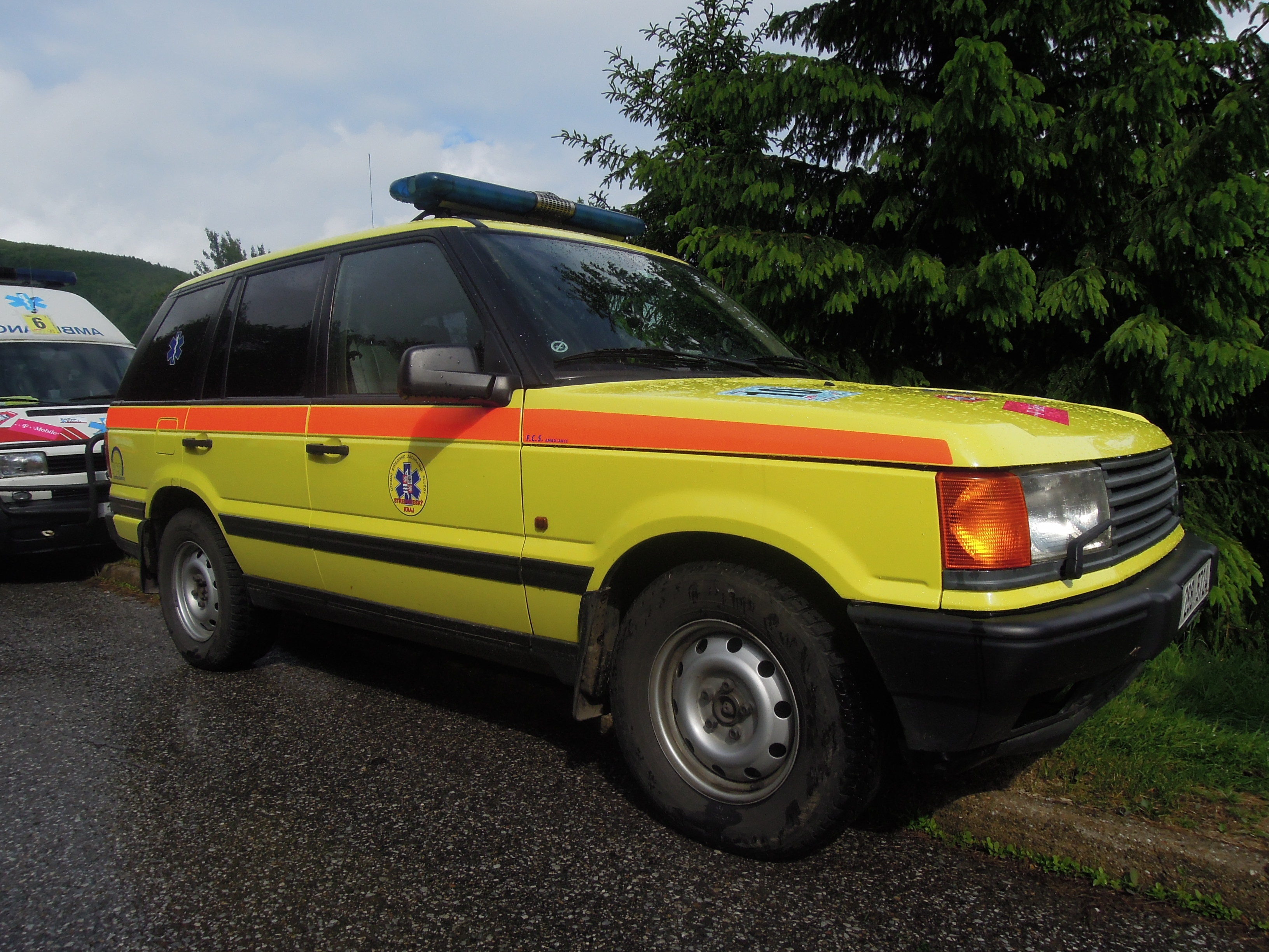 Land Rover Range Rover ambulance of Územní středisko záchranné služby Středočeského kraje. Photo was taken during the international competition Rallye Rejvíz 2012 in Kouty nad Desnou, Olomouc Region, Czech Republic